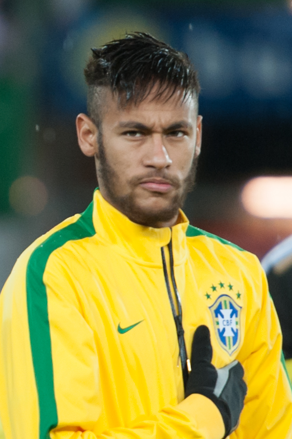 International Friendly Austria - Brazil November 18, 2014: Neymar Jr